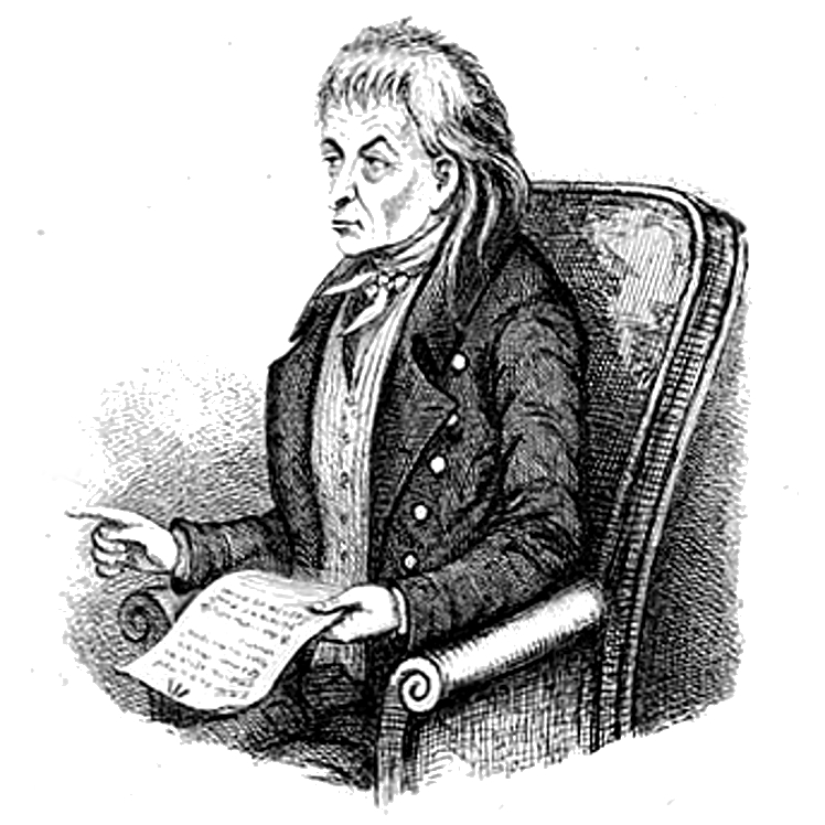 Print of Iolo Morgan(n)wg, the bardic name of Edward Williams (1747-1826)